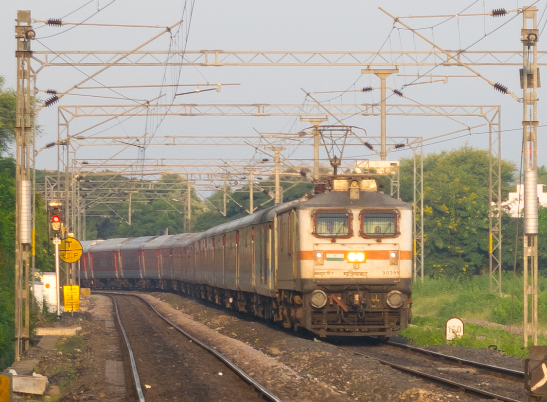 Bengaluru to Hazrat Nizamuddin Rajdhani express with a WAP7 near Lingampally Railway Station